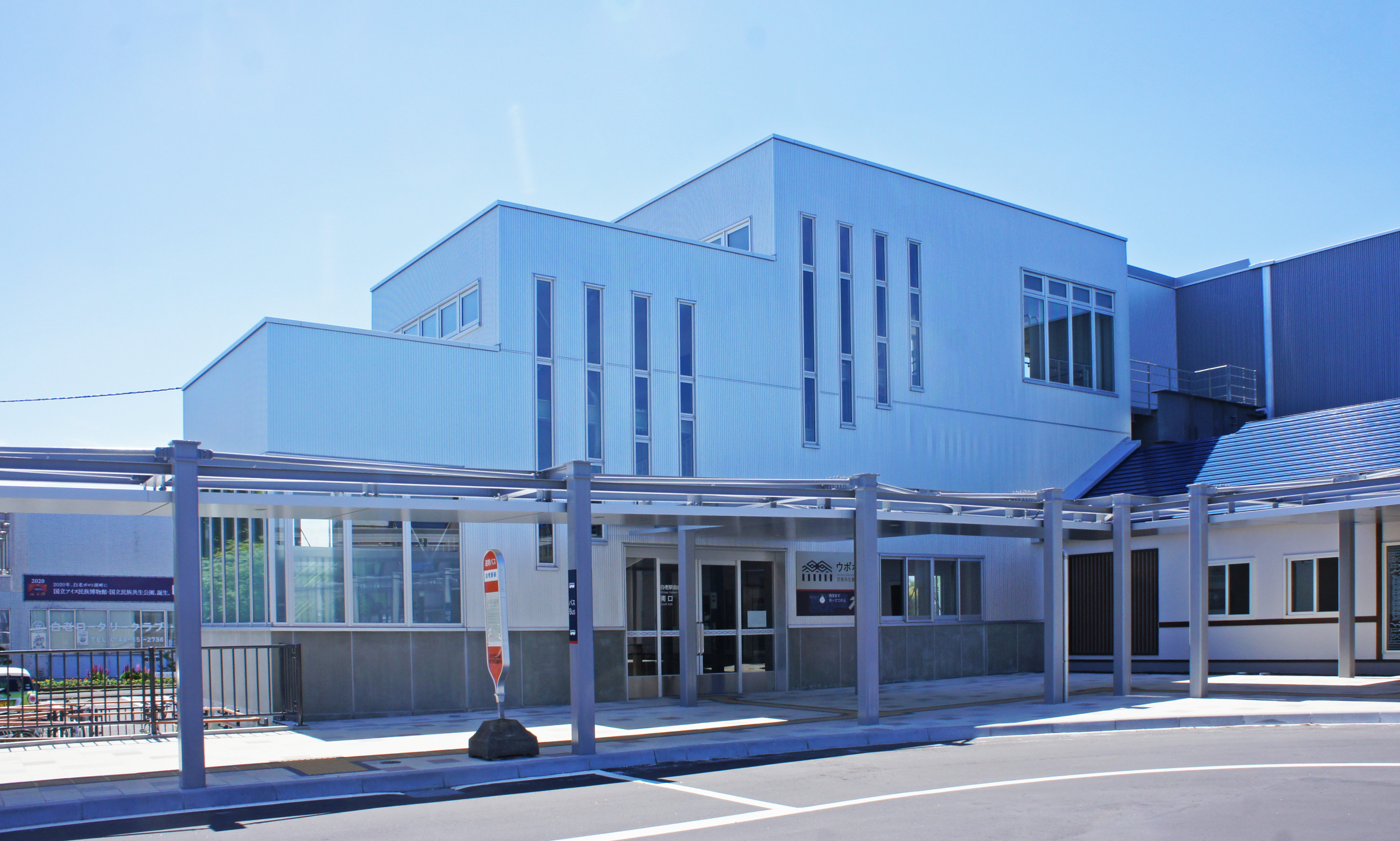 Free Passage (South Exit) of JR Muroran-Main-Line Shiraoi Station. It was put into service on March 14, 2020. Sony NEX-3 + E 18-55mm F3.5-5.6 OSS